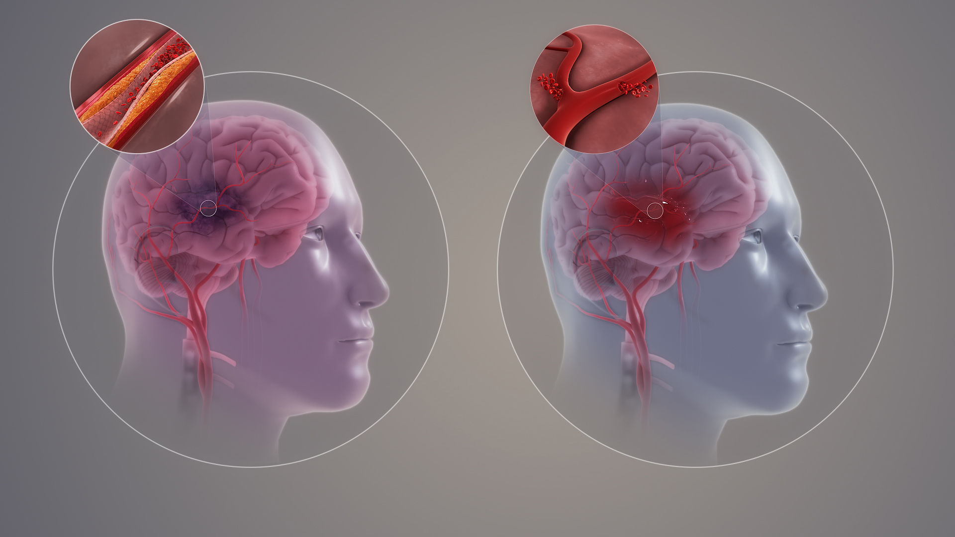 Blood clot stops blood flow to an area of the brain in Ischemic (L) whereas blood leaks into brain tissue in case of Hemorrhagic(R).